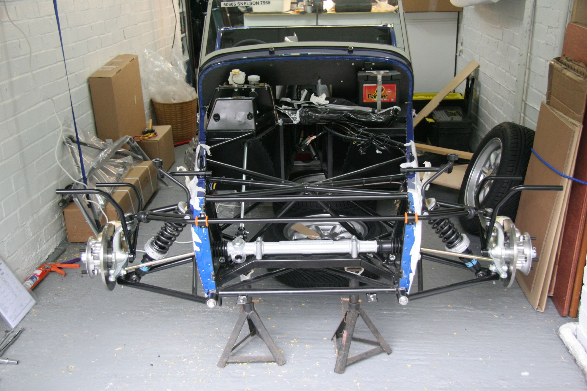 The anti-roll bar bushes were difficult to push onto the bar until I found that seemingly excessive applications of rubber lubricant spray made it achievable.